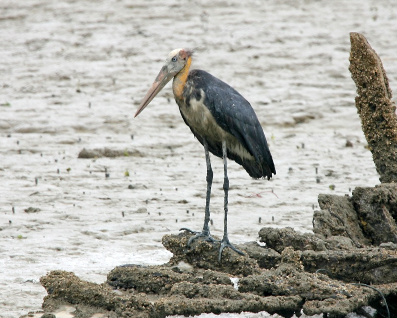 Lesser Adjutant Leptoptilos javanicus Johor, Malaysia January 10, 2006 Status: vulnerable: Alt. names: Haircrested Adjutant, Lesser Adjutant, Lesser Adjutant Stork, Lesser Adjutant-Stork Indonesian: Bangau tongtong